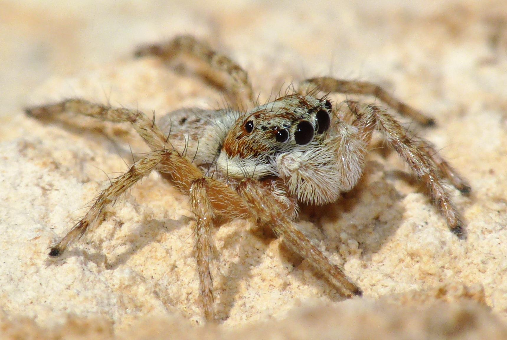 Menemerus semilimbatus, Dingli, Malta